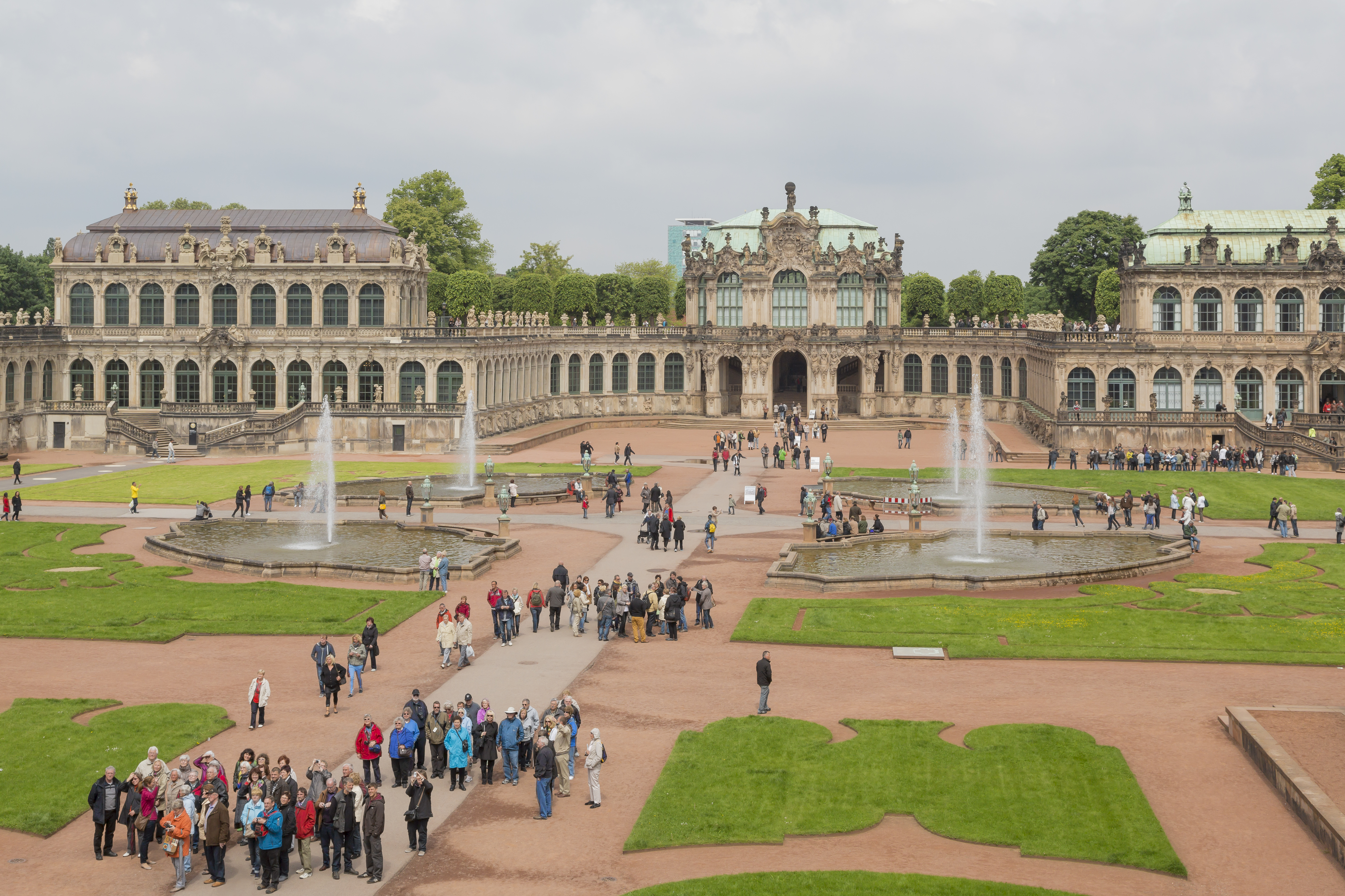 Dresden, Germany: Zwinger Dresden